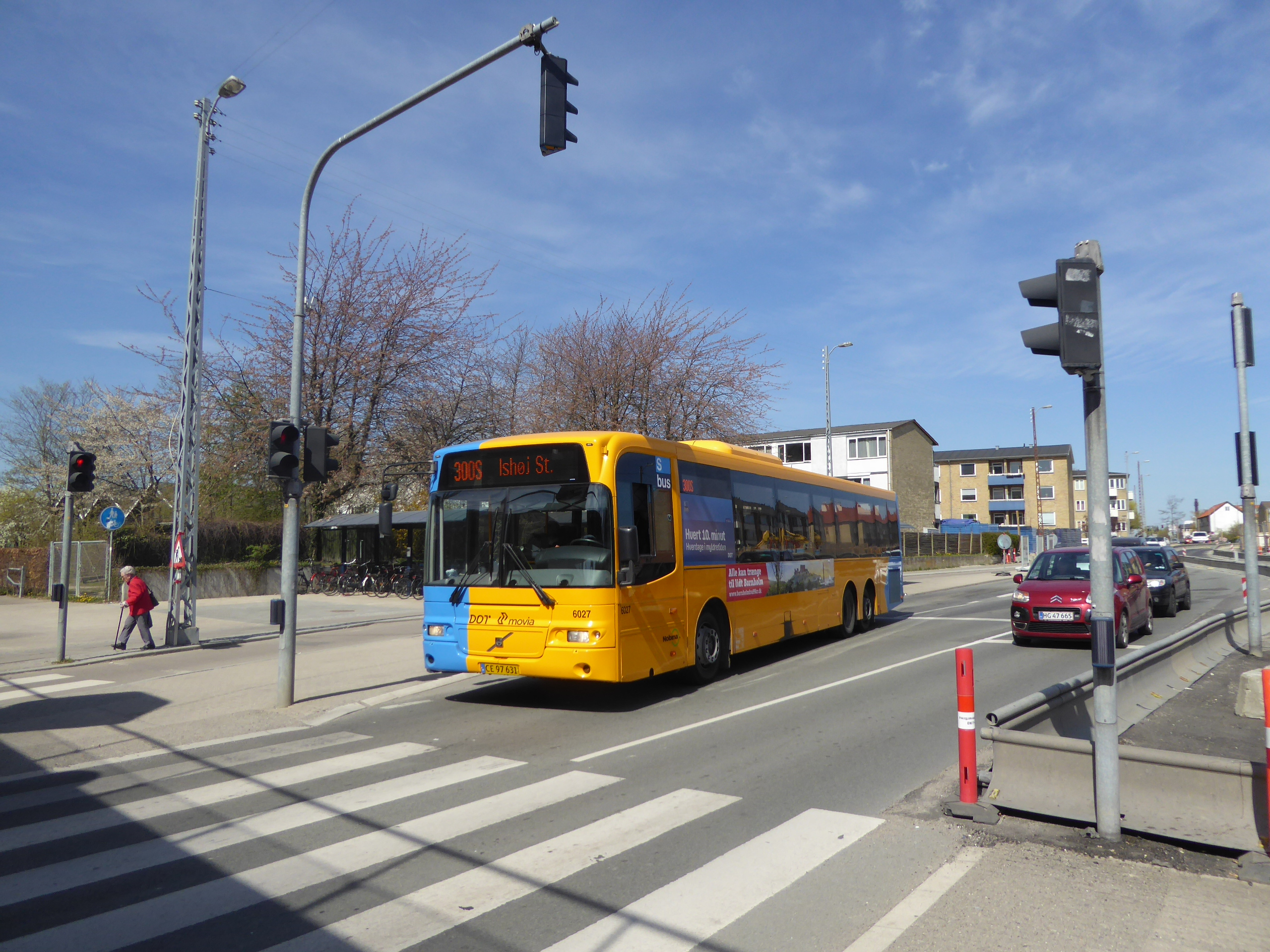 Movia bus line 300S on Buddingevej at Buddinge Station in Copenhagen.